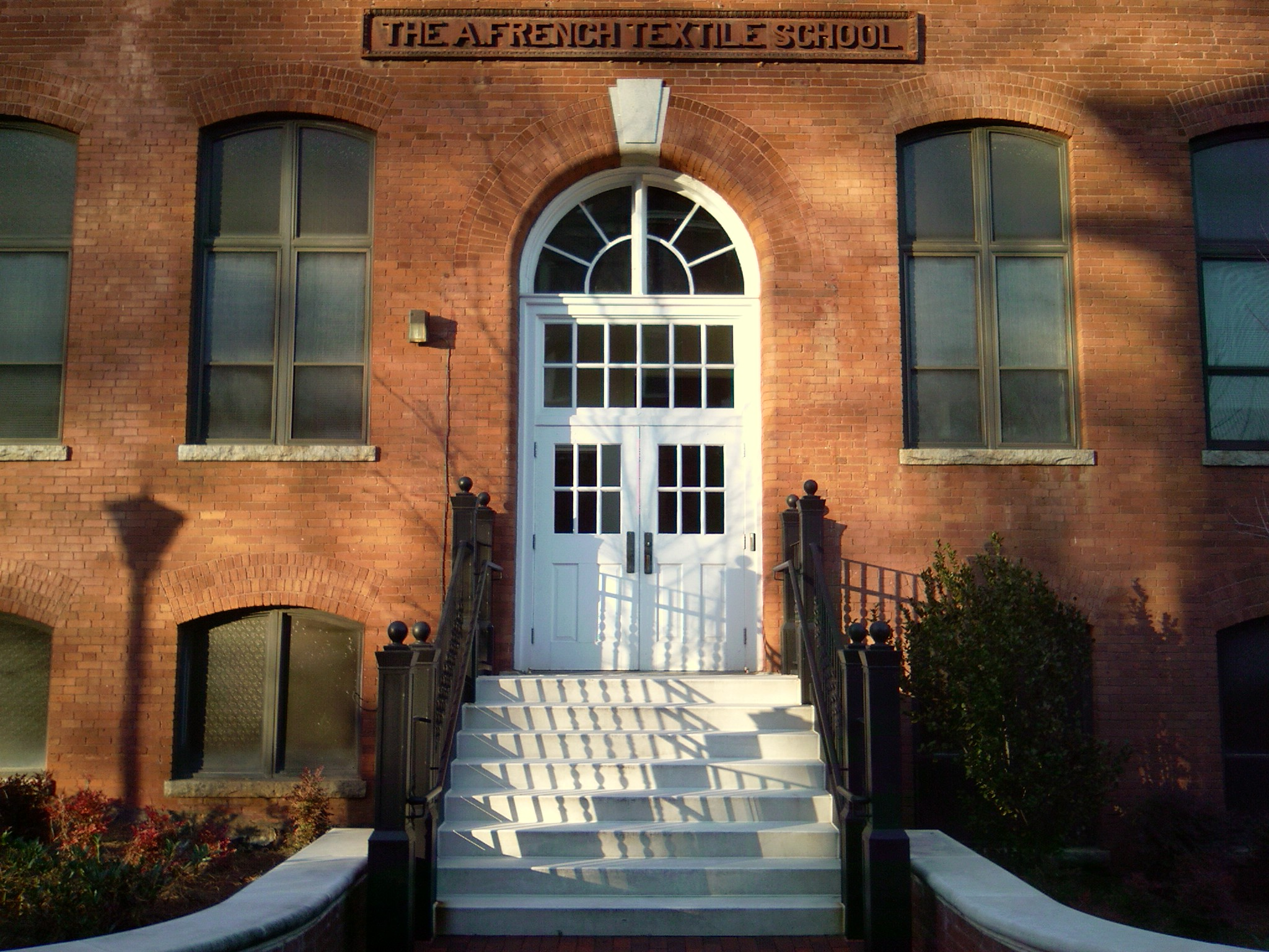 Facade of the Aaron French Building at Georgia Tech, in Atlanta, GA, USA.